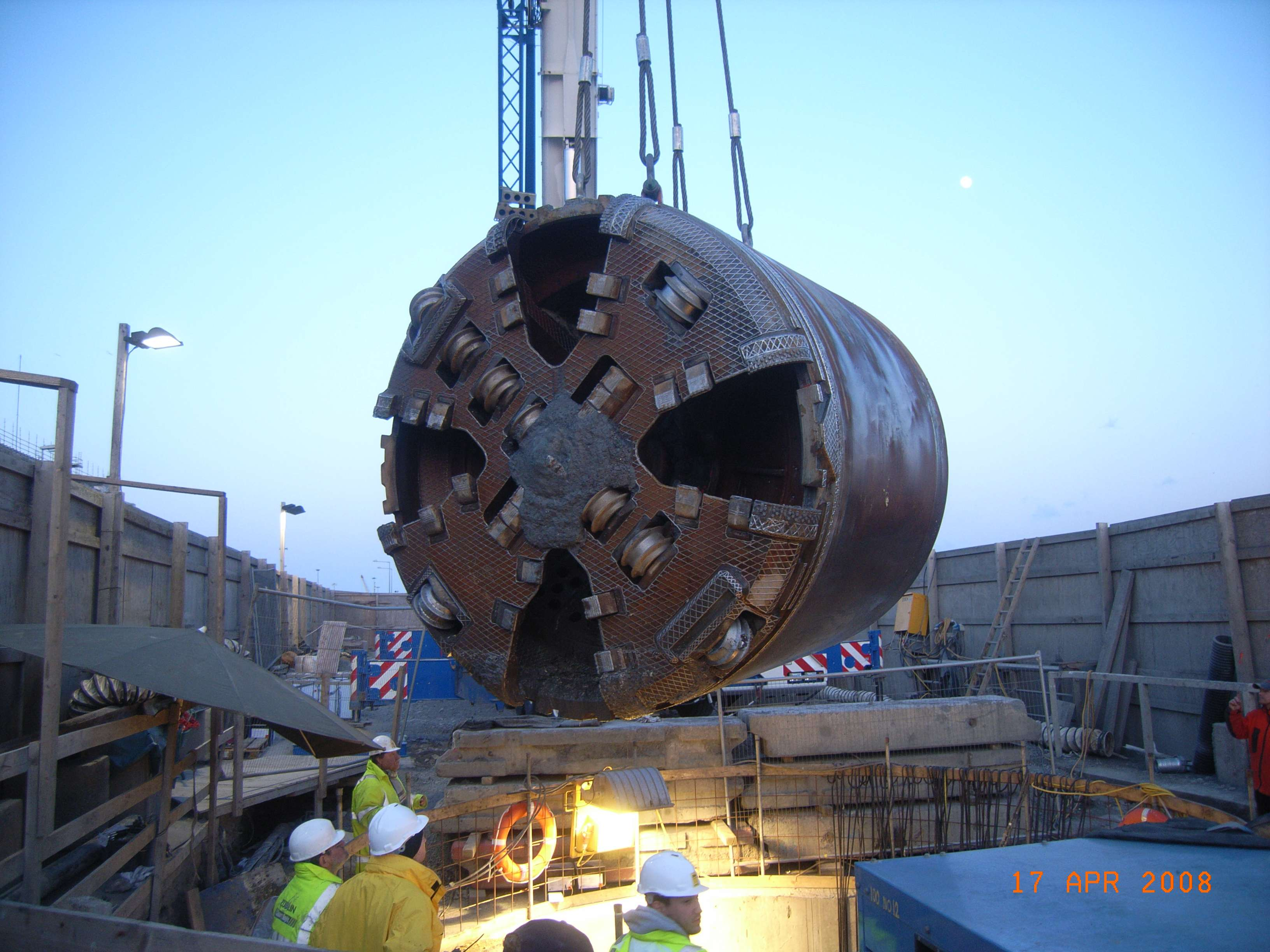 Recovery of the TBM after tunnel completion on April 17, 2008